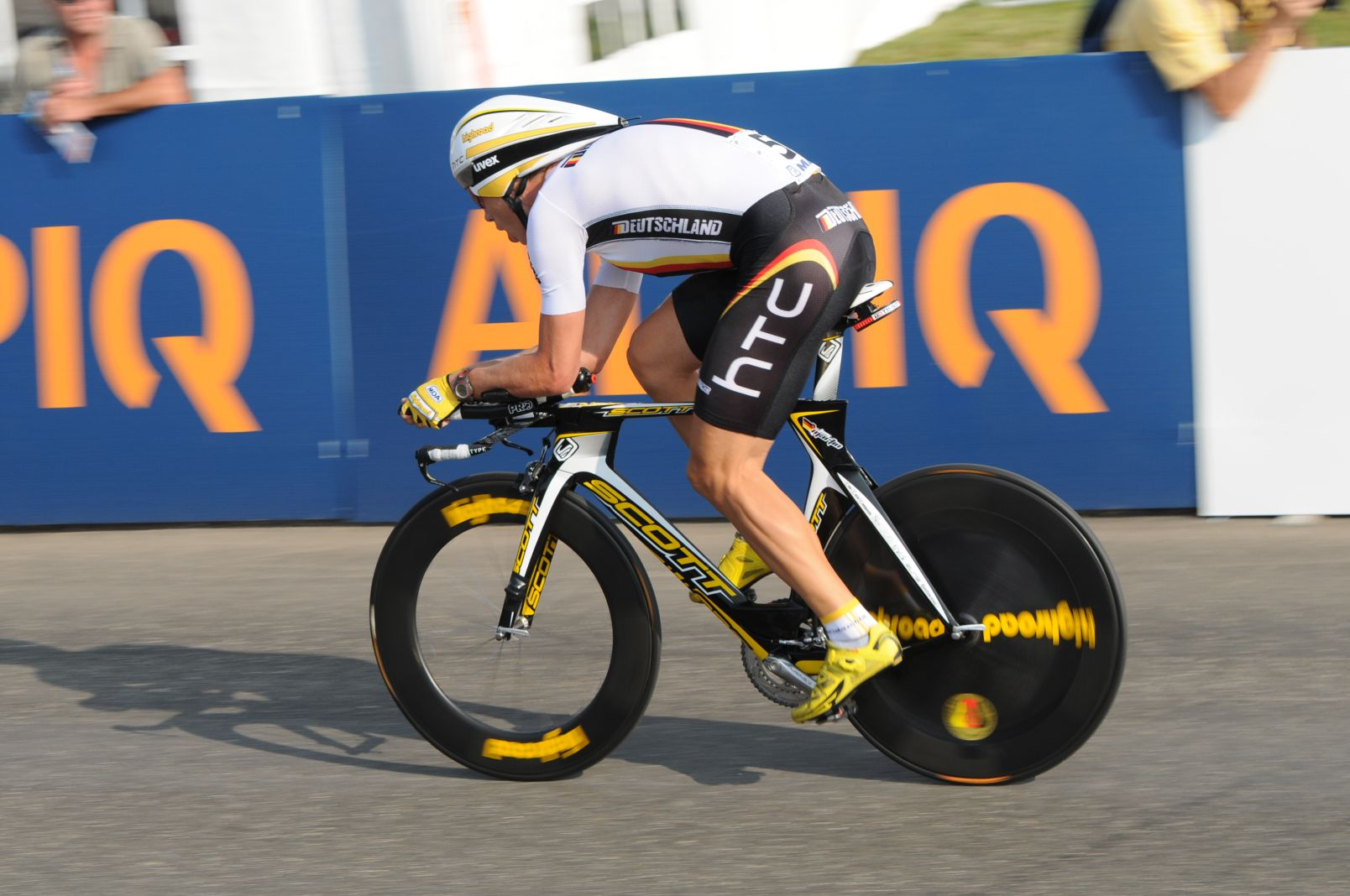 Tony Martin at UCI World Championships in Mendrisio, Switzerland